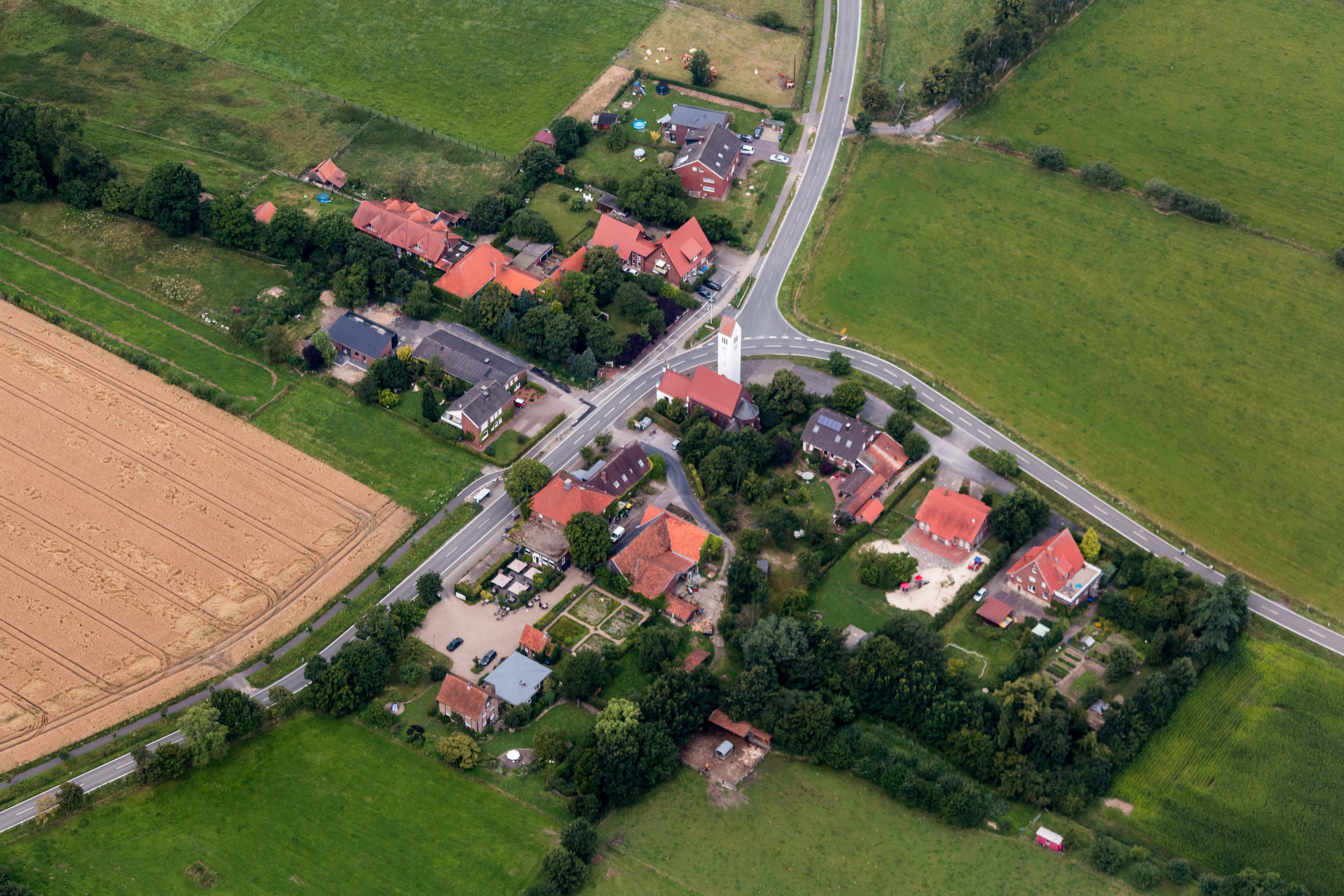 St. John of Nepomuk Church, Altenberge, North Rhine-Westphalia, Germany